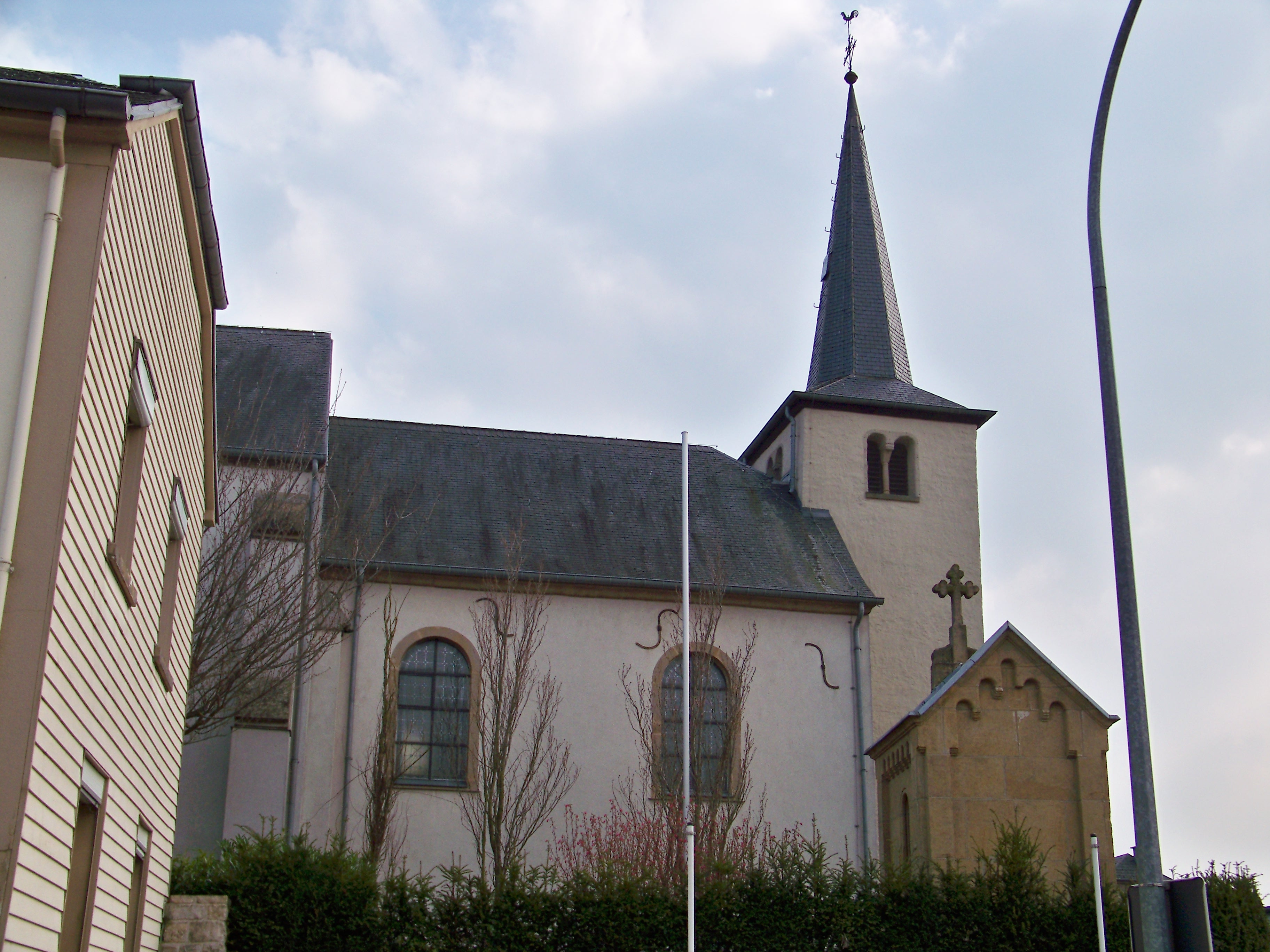 The church with its roman tower at the luxembourgish village of Alzingen. In the foreground: the old cemetery chapel